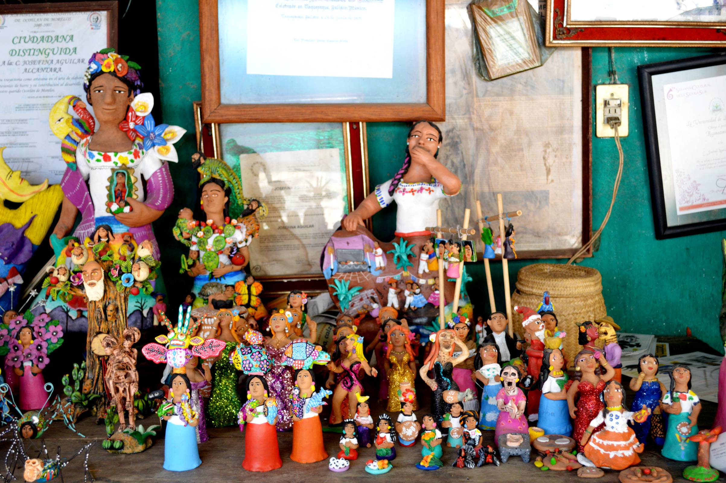 Pieces made by various members of the Josefina Aguilar family at their home/workshop in Ocotlan de Morelos, Oaxaca